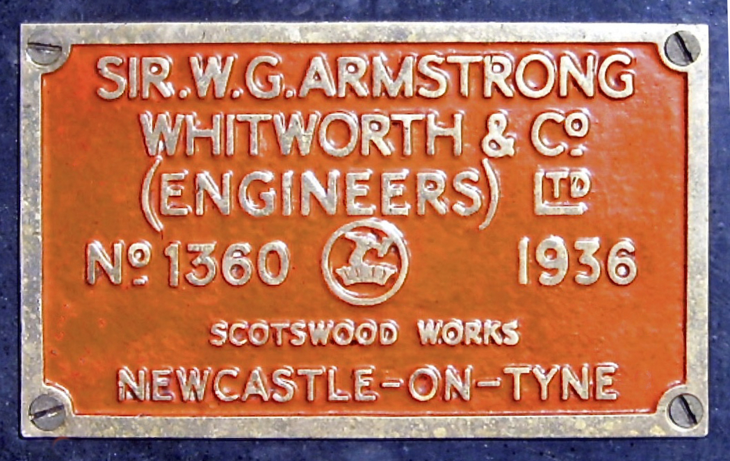 Sir W.G. Armstrong Whitworth works plate from LMS Stanier 5MT 4-6-0 45305